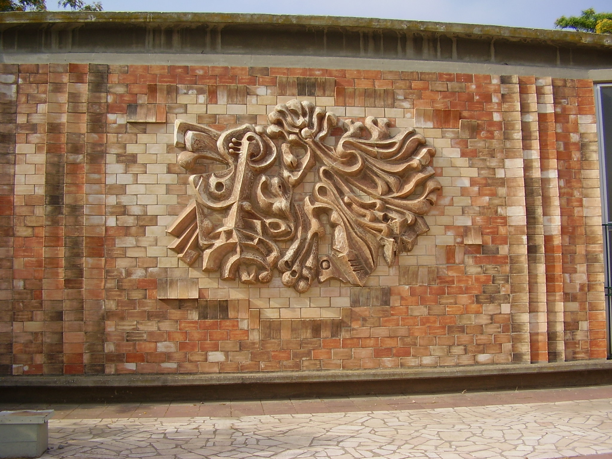 kfar menachem museum